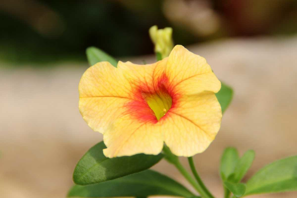 Family: Solanaceae Genus: Calibrachoa